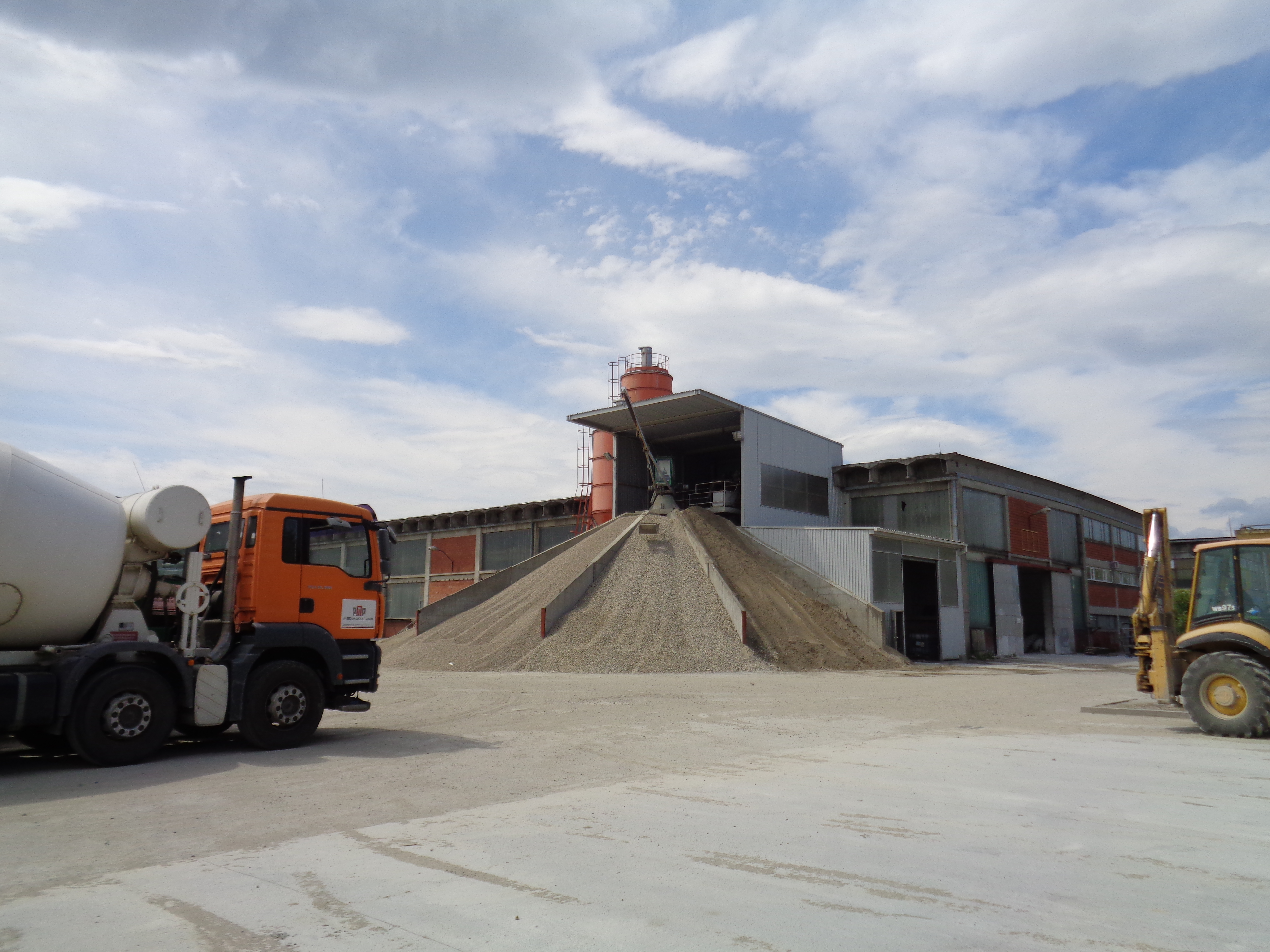 Međimurje PMP concrete plant in Čakovec, Medjimurje County, Croatia